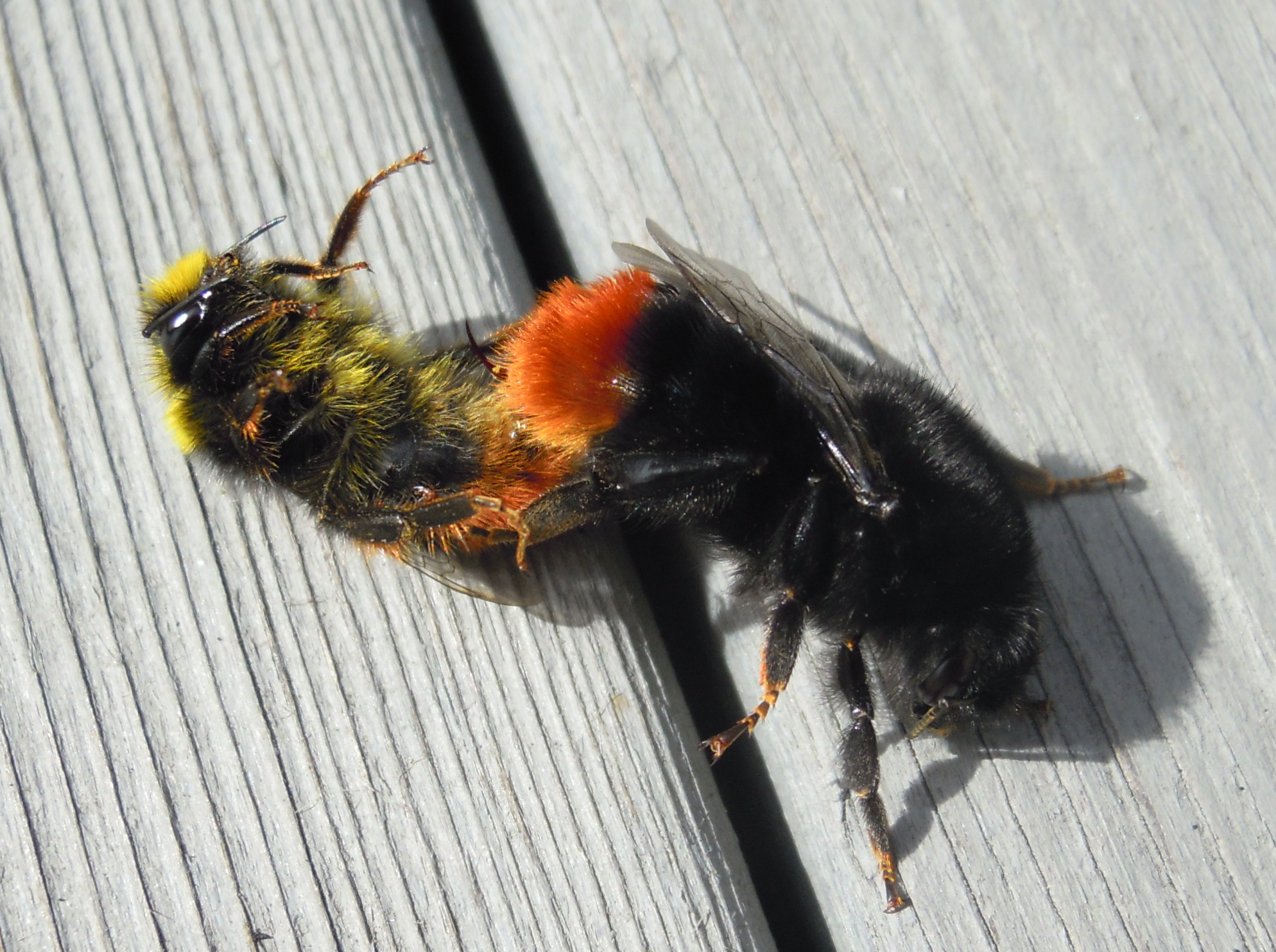 Red-tailed bumblebee - Bombus lapidarius, Larvik, Norway. Mating. The photographer, Arnstein Rønning, to be credited...